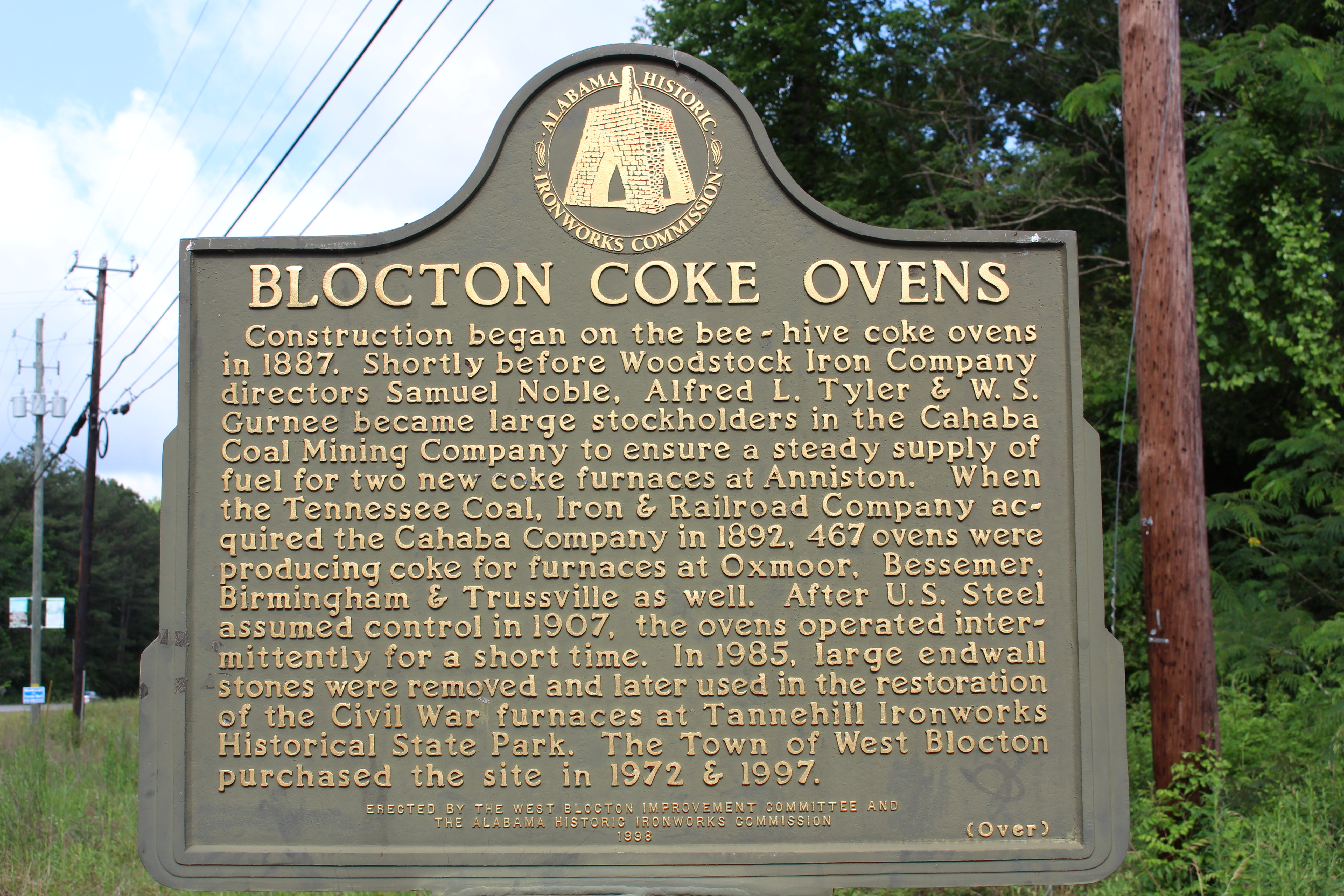 Construction began on the bee-hive coke ovens in 1887, producing a high quality coke for steel production.